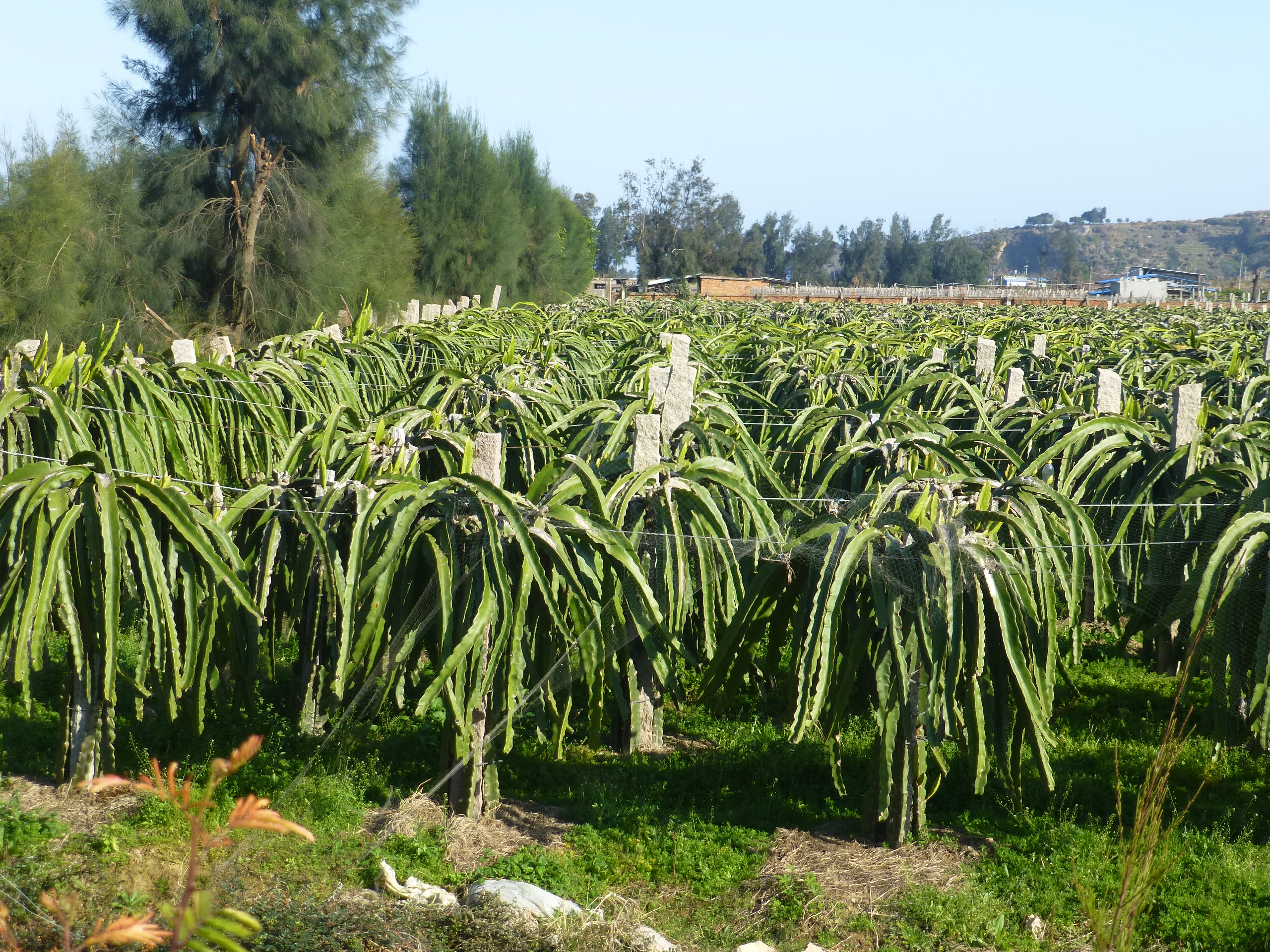 The farm of the Yangguang Red-flesh Dragon Fruit Agricultural Cooperative Society, east of Dongdai Town, Lianjiang County, Fujian